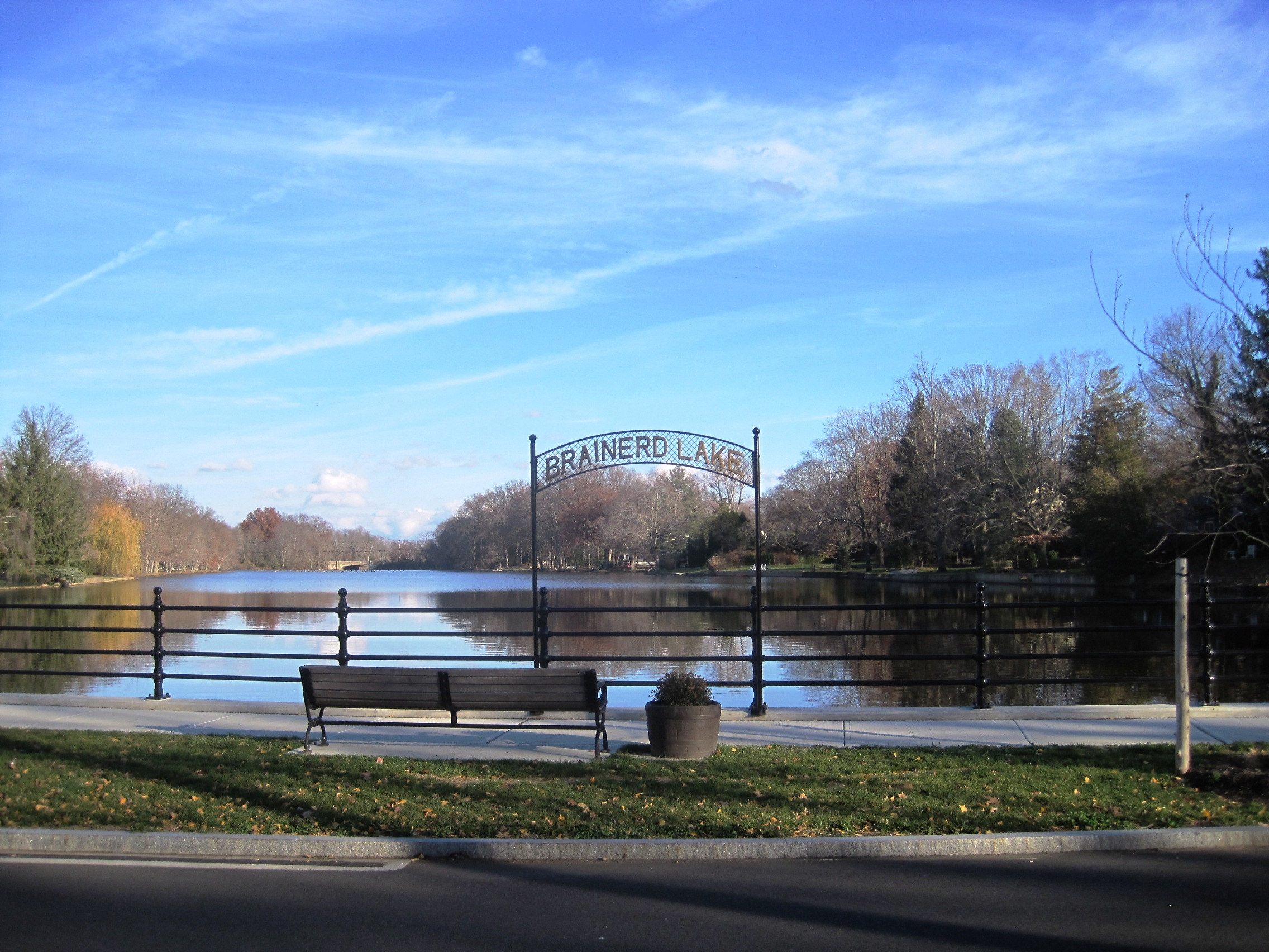 Photo of Brainerd Lake in downtown Cranbury, New Jersey. It is located along the Cranbury Brook and the photo location is taken from Main Street (County Route 535) looking east.